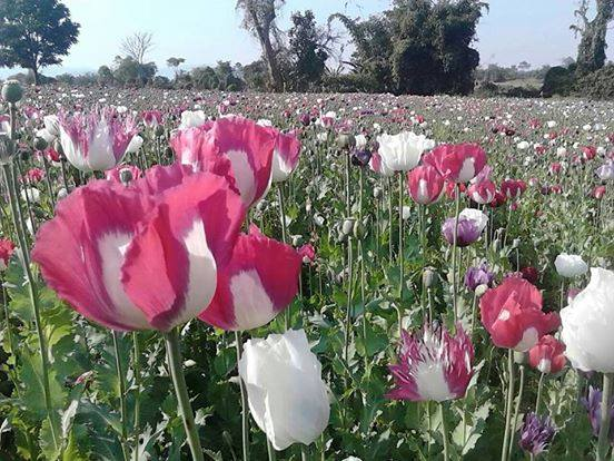 Opium poppy field – comment: image was added to the Tangyan, Burma article, so maybe located there, but not sure